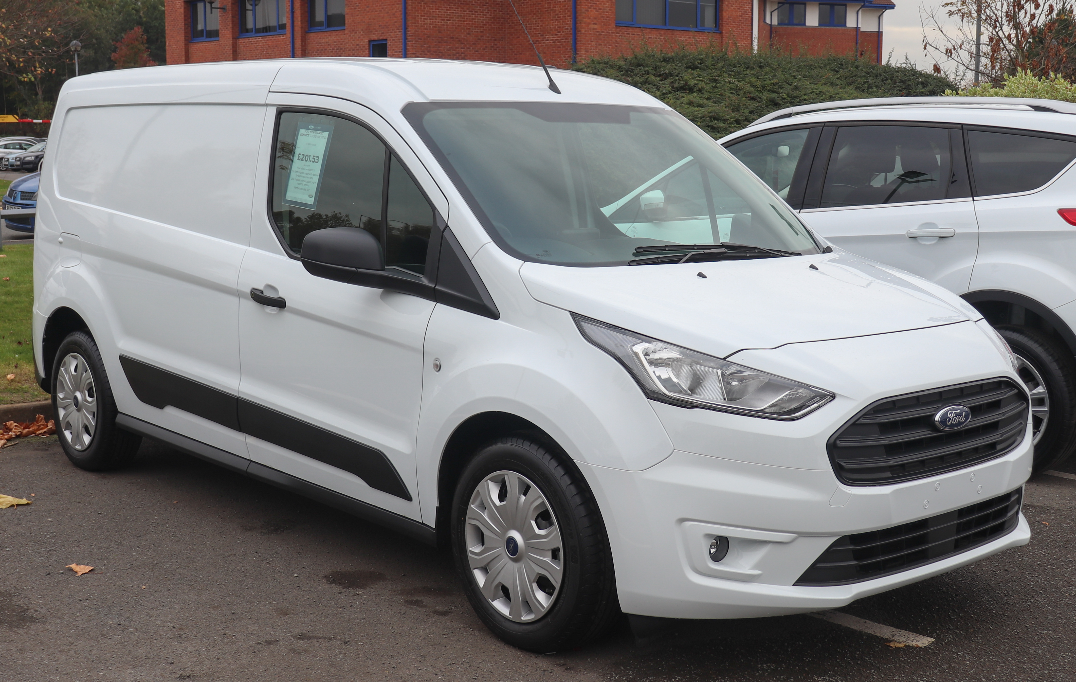 2018 Ford Transit Connect facelift Front Taken in Leamington Spa